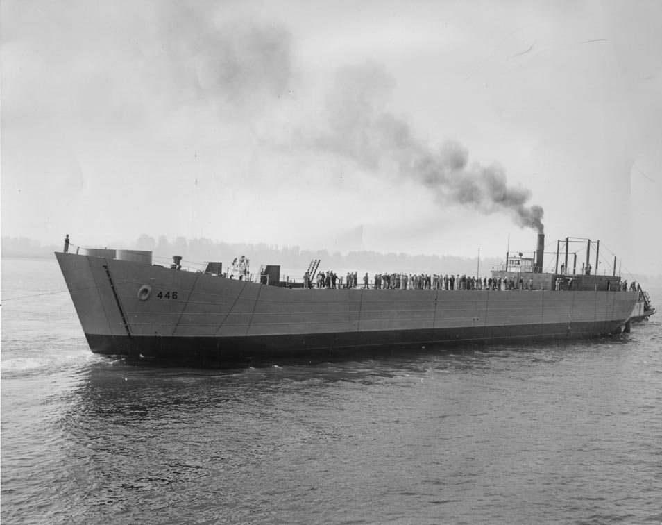 USS LST-446 launching at Kaiser, Inc., Vancouver, WA., 18 September 1942. The pilothouse and smoke stack belong to the paddle-wheel tug at the LSTs stern. Photo source, Seattle NARA, 13th Naval District Commandant's Office Central Subject Files, 1942.